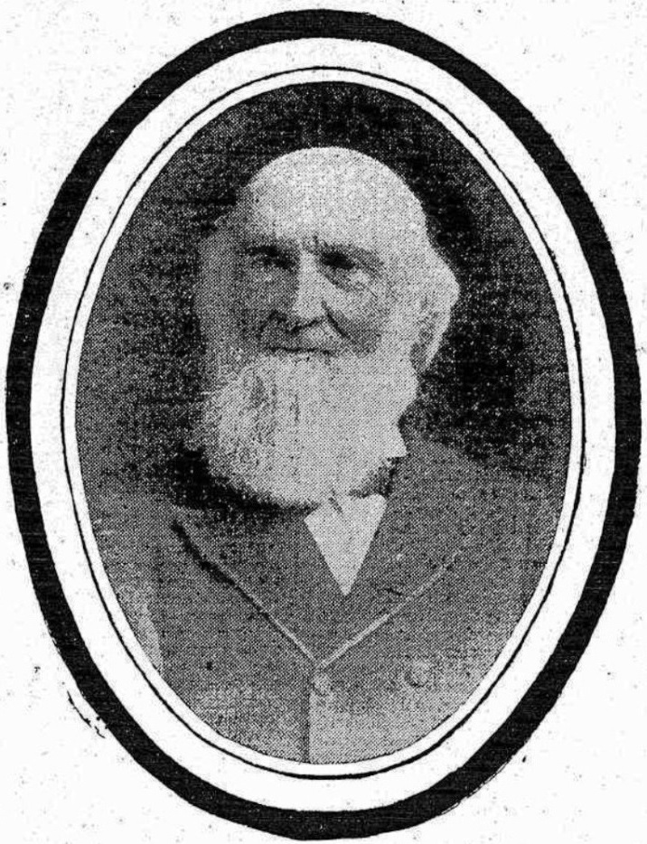 Ausburn Birdsall, Congressman from New York